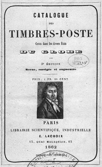 Alfred Potiquet. Catalog of Postage Stamps Issued in Different Countries of the World, 2nd edition, March 1862. The Potiquet catalog is the first in the world. Its first edition appeared on December 21, 1861. It can be consulted here in its second edition, published in March 1862, edited by P. Lacroix. Note the "editor's note" two releases denouncing "copying the work of Mr. Alfred Potiquet ". This catalog is not illustrated and contains no quotes.